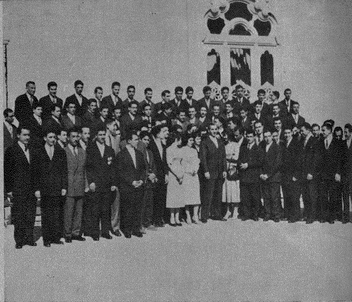 Caption: Top students from various high schools were this year sent to the United States and European countries for special training courses. Here the students pose for a picture with His Imperial Majesty the Shahanshah